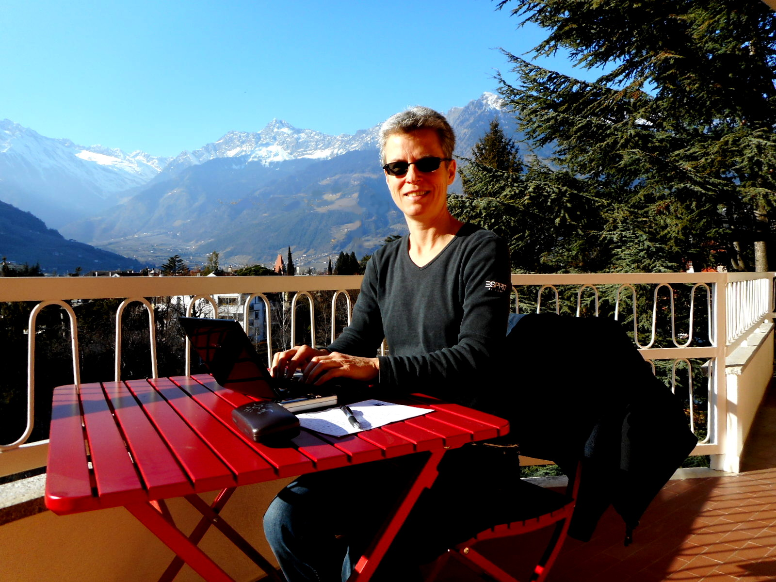 Jutta Profijt